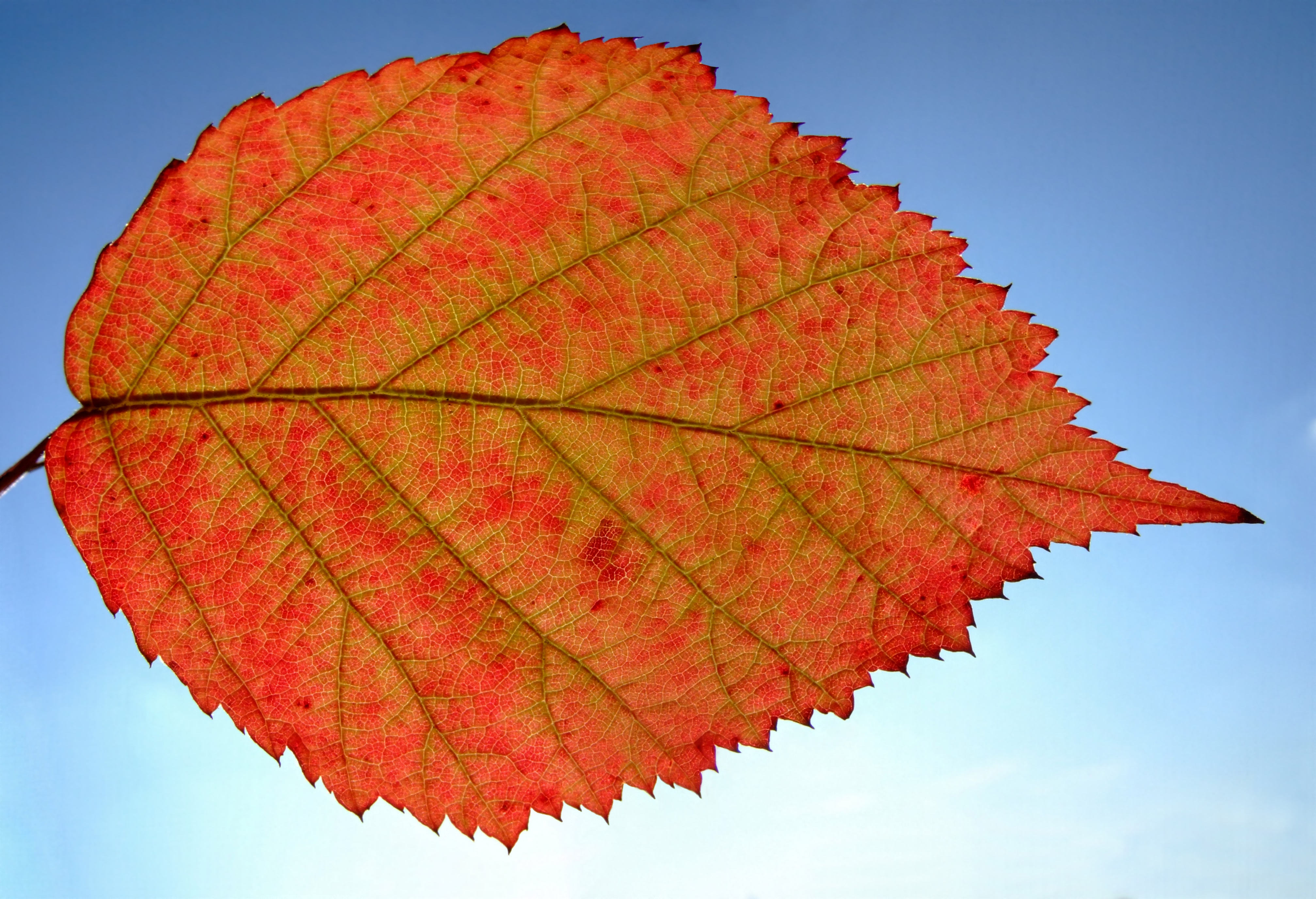 leaflet of a Dewberry (Rubus caesius), in autumn colour.